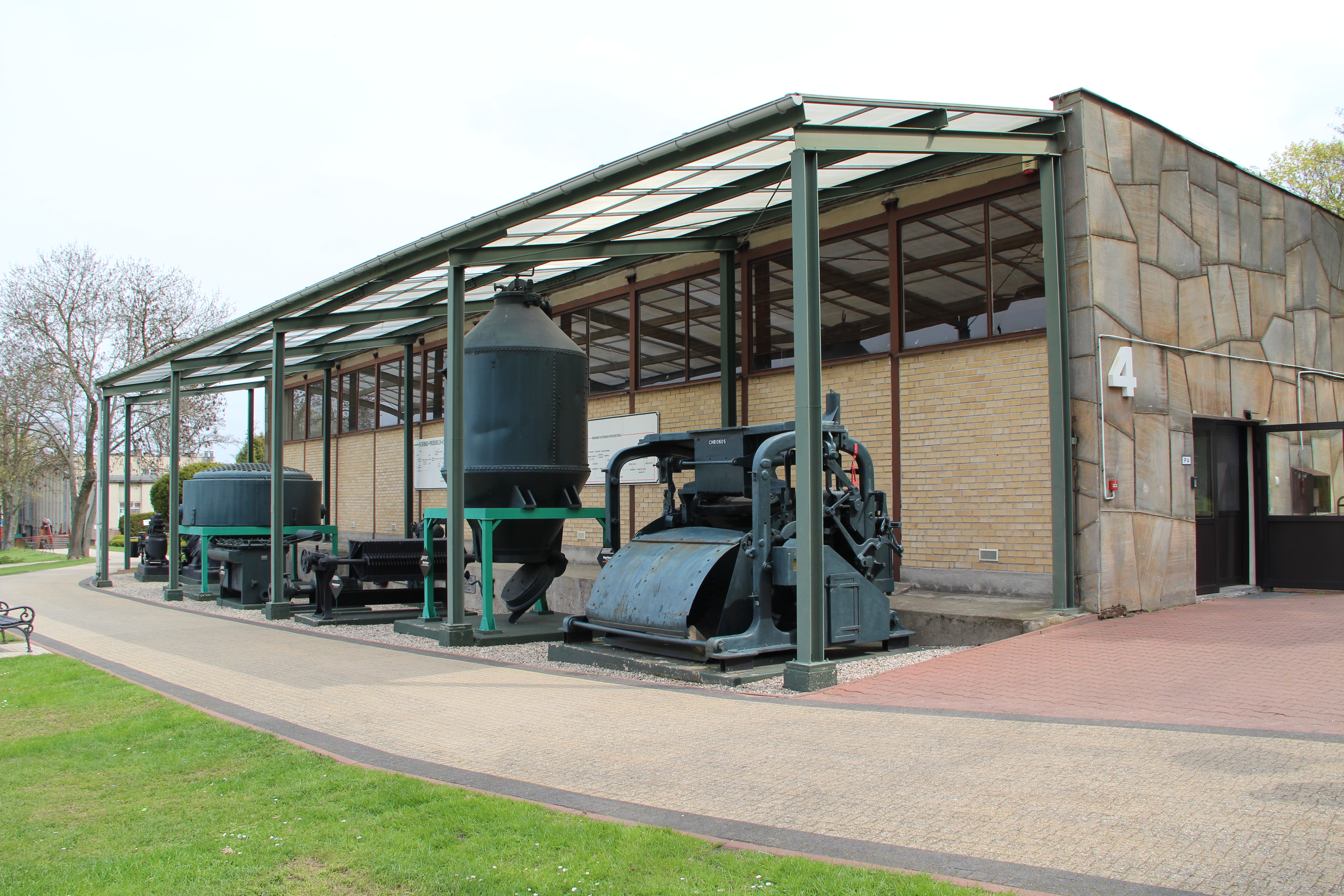 National Museum of Agriculture in Szreniawa